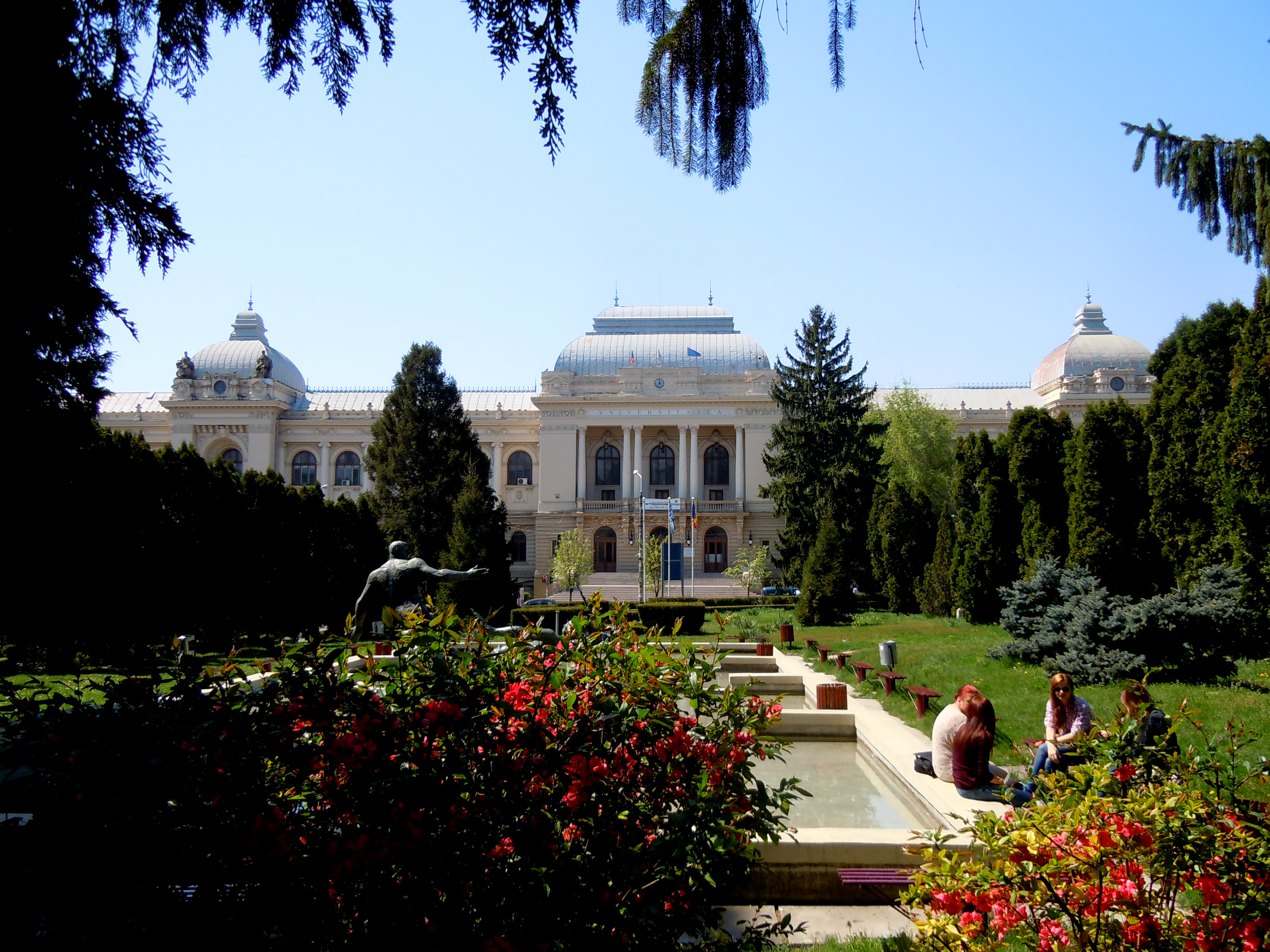 University "Alexandru Ioan Cuza" , Building A , Iaşi , Romania